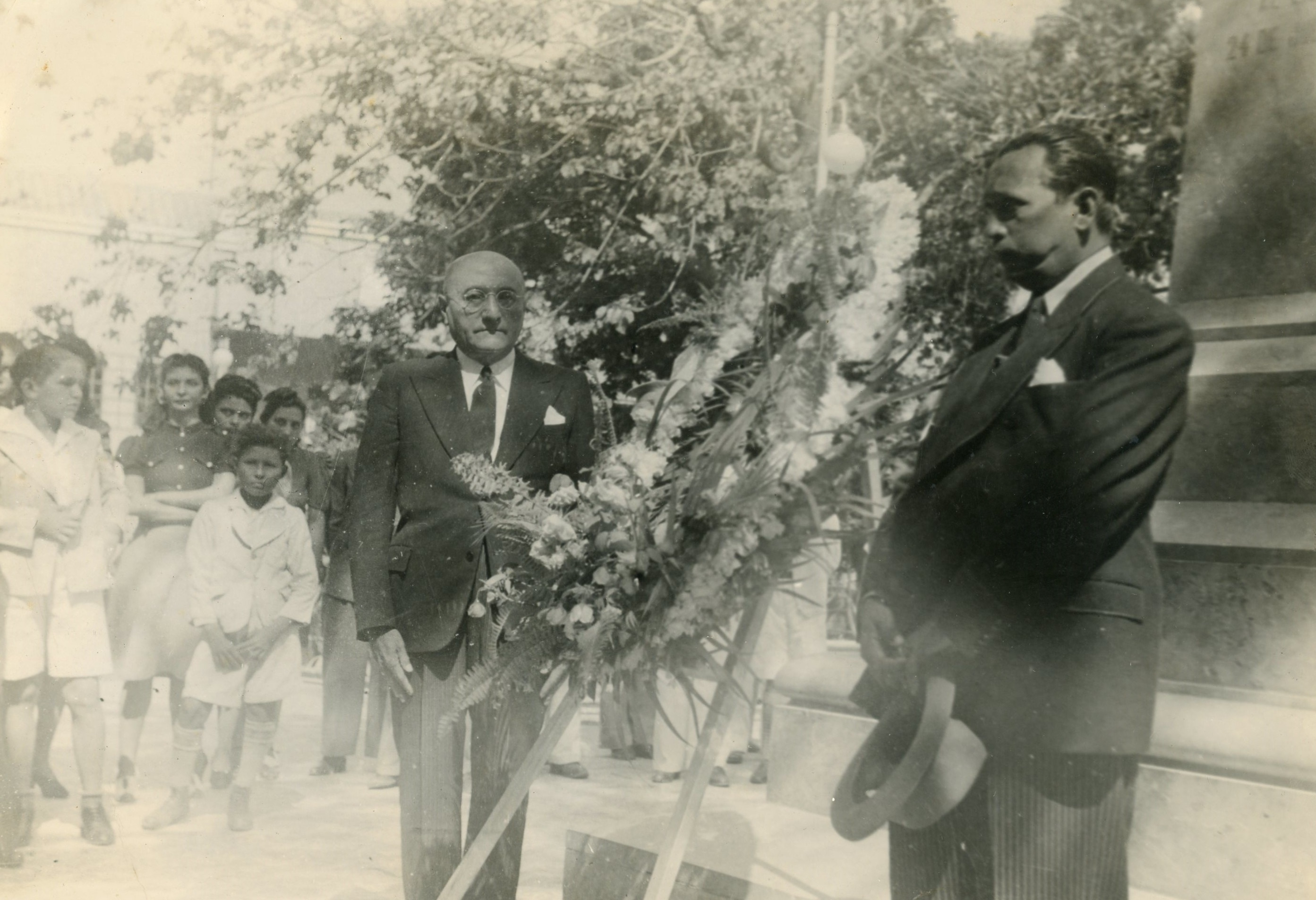 Ofrenda floral del presidente del estado Falcón, Tomás Liscano Giménez, en la Plaza Bolívar de Coro.